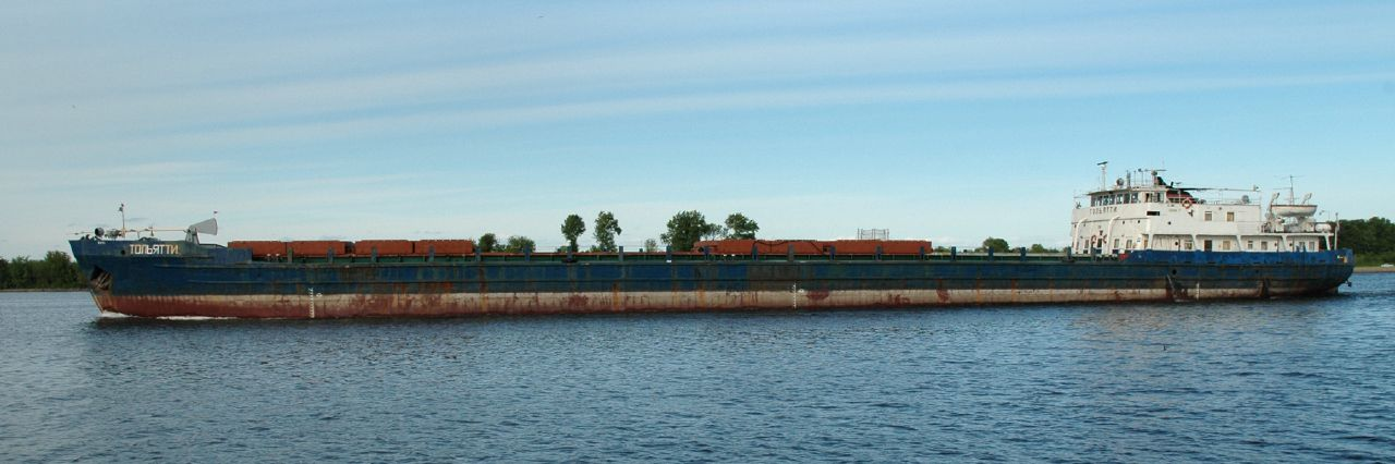 Shipping on the River Volga.